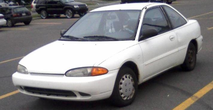 1993-1994 Plymouth Colt photographed in Montreal, Quebec, Canada.